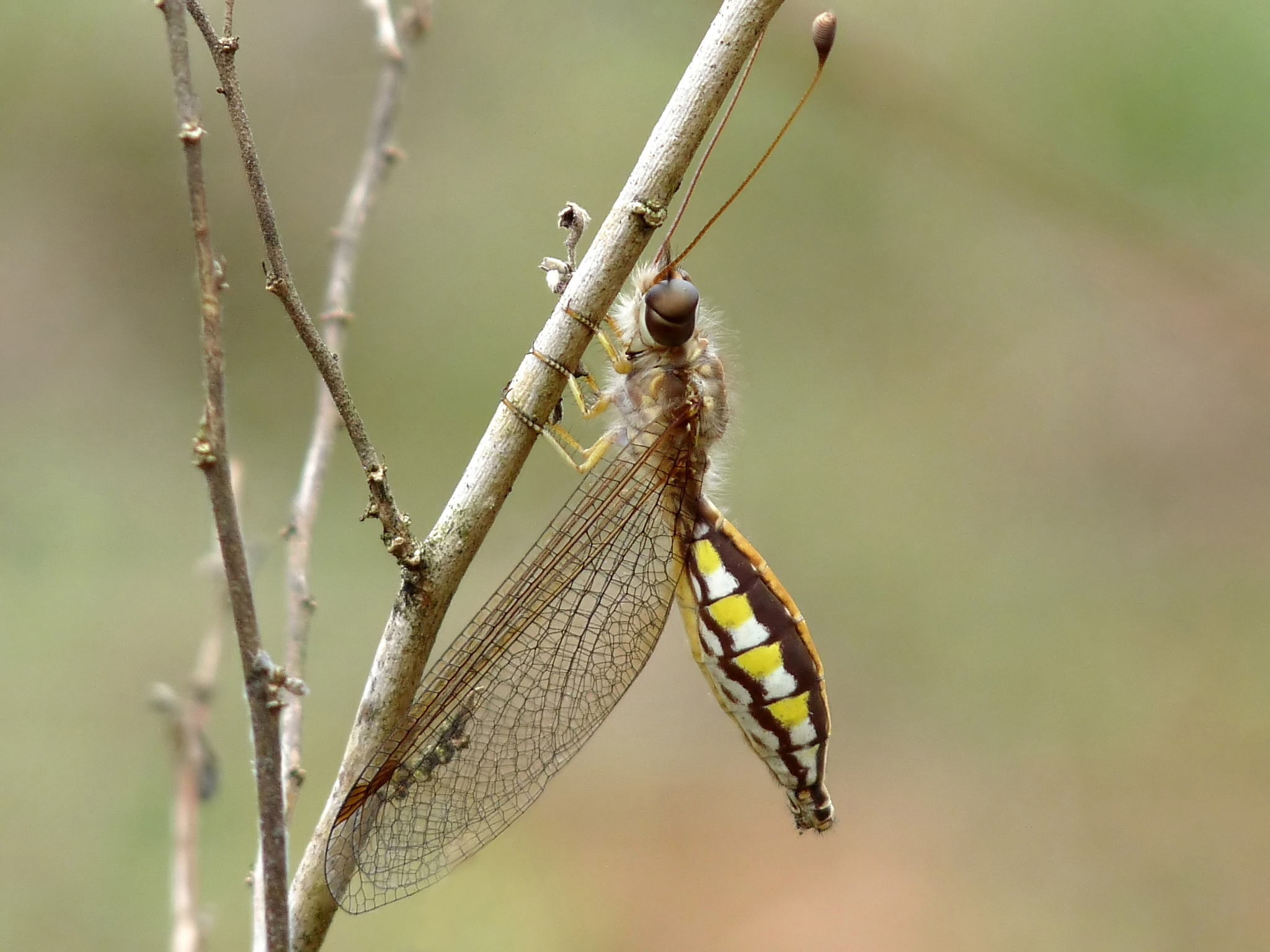 Ascalaphus sinister Owlflies are dragonfly-like insects with large bulging eyes and long knobbed antennae. They are neuropterans in the family Ascalaphidae; they are only distantly related to the true flies, and even more distant from the dragonflies and damselflies. They are diurnal or crepuscular predators of other flying insects, and are typically 5 cm (2.0 in) long. The Ascalaphinae are the namesake subfamily of the owlfly family (Ascalaphidae), winged insects of the order Neuroptera. Most are found in the tropics. Their characteristic apomorphy is the ridge which divides each of their huge compound eyes; they are thus known as split-eyed owlflies.